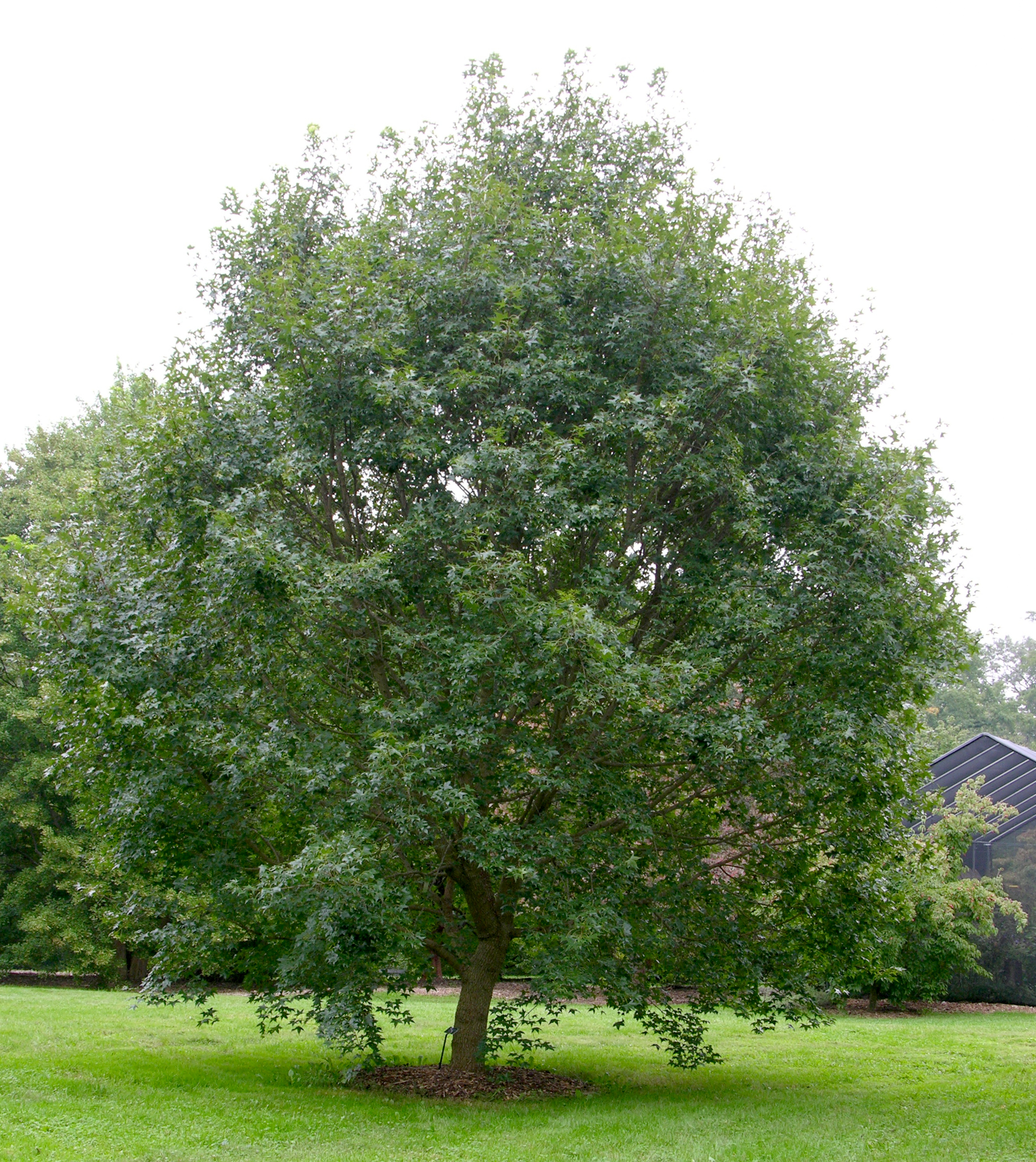 Photograph of the Purpleblow Maple (Acer truncatum) tree. Photo taken at the Tyler Arboretum where it was identified.